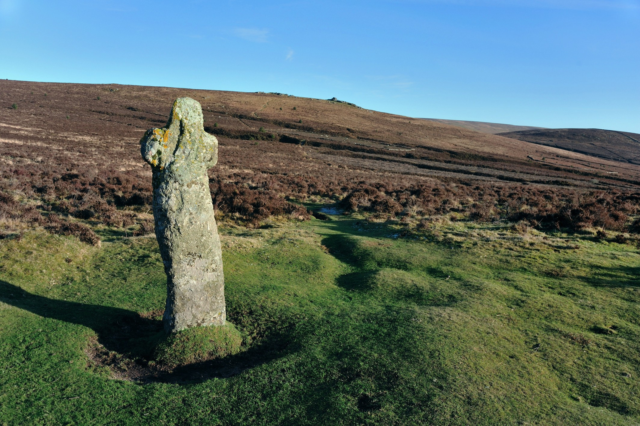 Bennett's Cross on Dartmoor, Devon, England. Birch Tor is in the background.